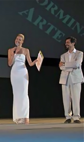 Film director Mahmoud Shoolizadeh in the Taormina International Film Festival 2003, being introduced to the audience, on stage. Licensing Removed from the following pages: Mahmoud Shoolizadeh Noora --OrphanBot (talk) 06:34, 31 October 2008 (UTC)